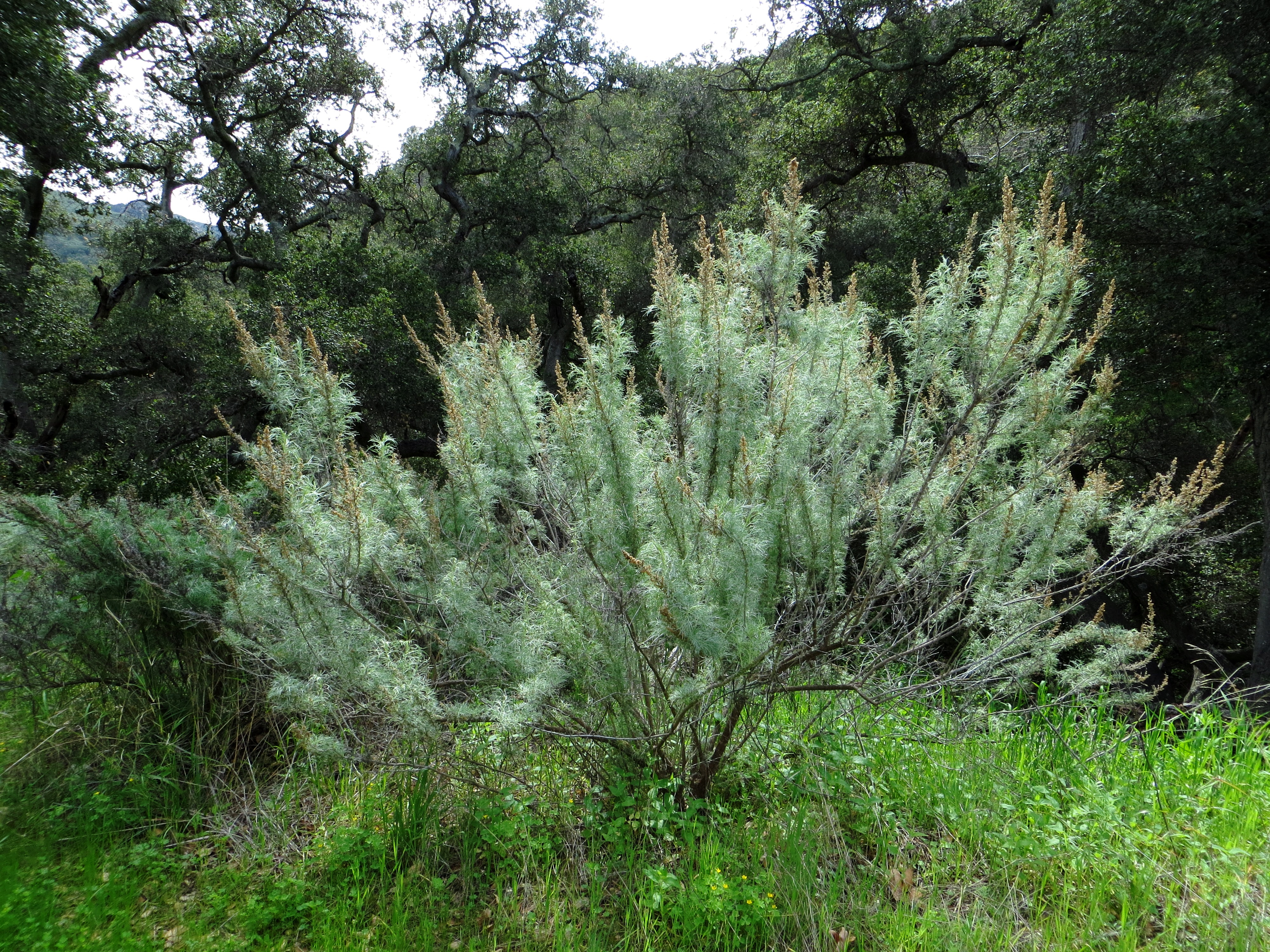 Mature Artemisia californica, Gaviota State Park. Photo by self, GFDL/equiv, March 2, 2013. Summary Mature Artemisia californica, Gaviota State Park. Photo by self, GFDL/equiv, March 2, 2013.